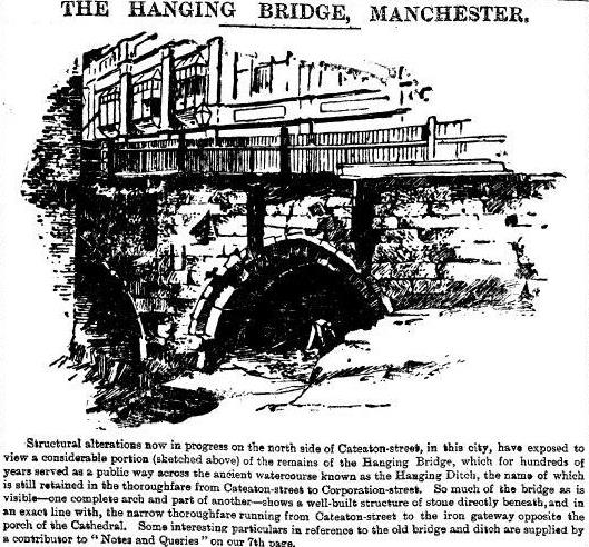 Drawing of Hanging Bridge Manchester from a newspaper article printed June 1890